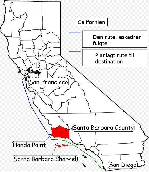 Map of Honda Point Desaster of US Navy vessels September 08, 1923. Modified to Danish labels.